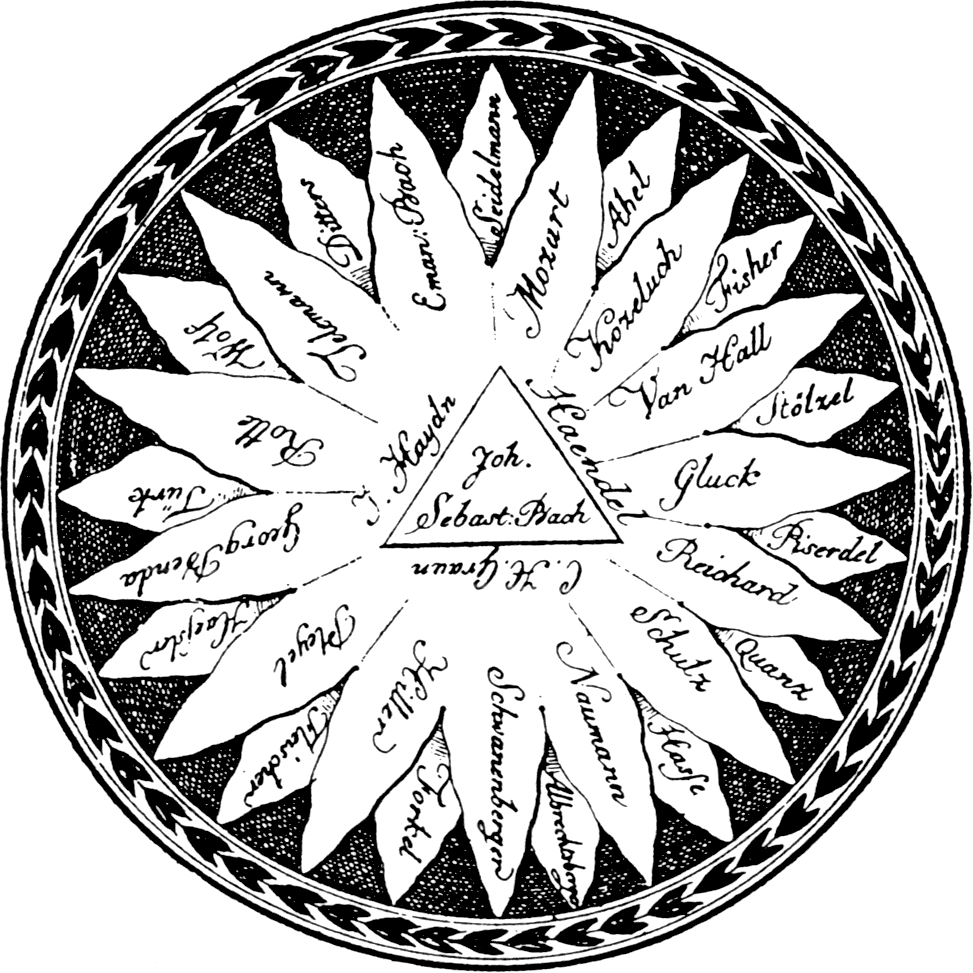 "Sun of Composers"